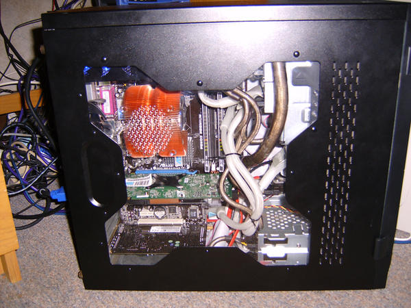 An example of a heavily modded system, all components were custom fitted and put together by hand. This is a good example of areodynamic case cooling. Total system cost with recycled parts was only 1400 USD as of February 2006.